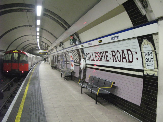 Gillespie Road tube station. See also 1203685.